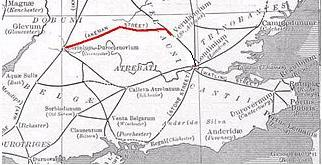 From :Image:Romanbritain.jpg